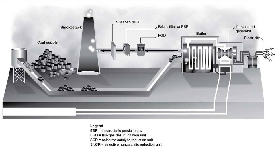 This image is excerpted from a U.S. GAO report: Air Emissions and Electricity Generation at U.S. Power Plants